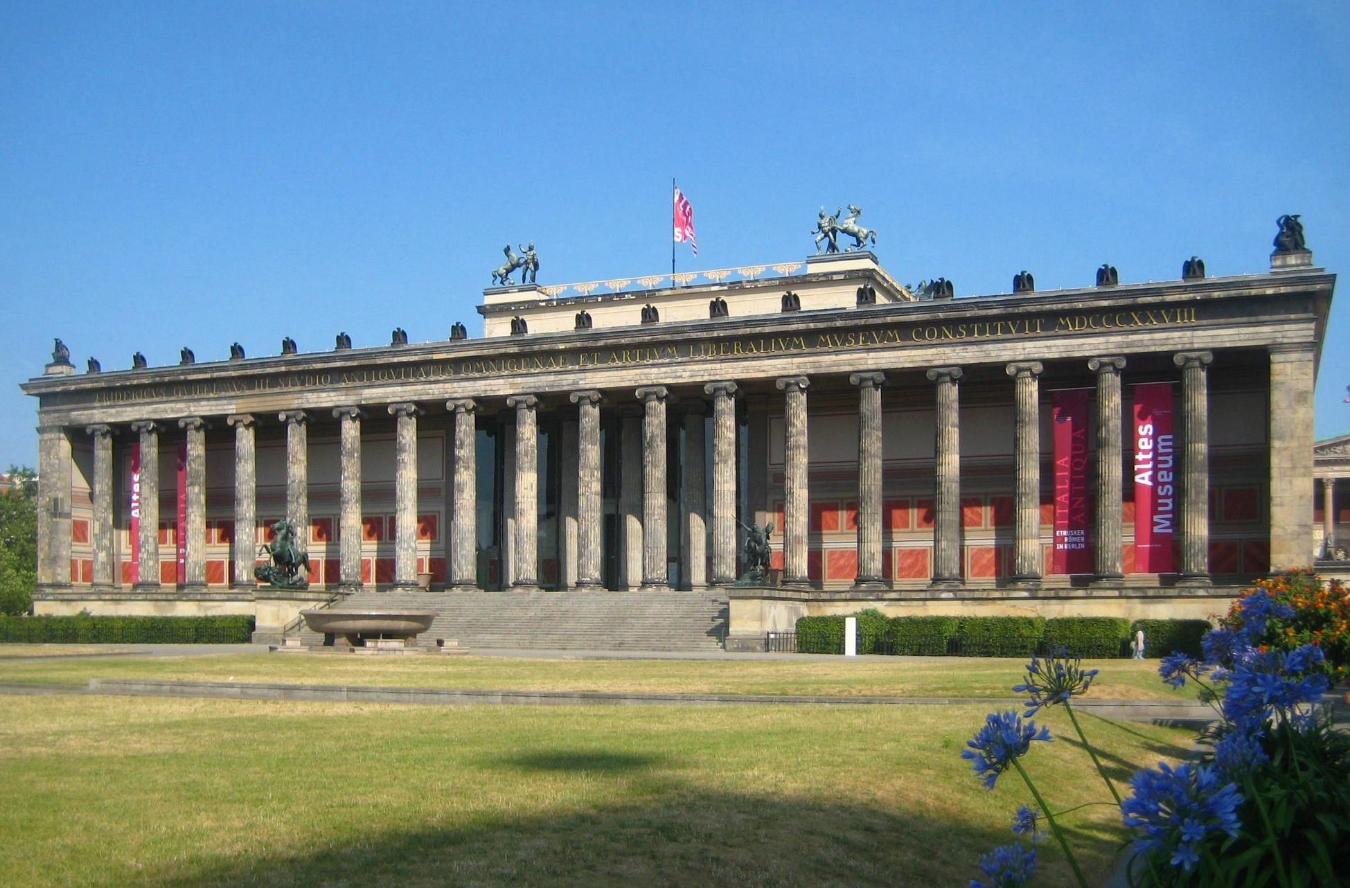 The Altes Museum (Old Museum) at Lustgarten on Museumsinsel (Museums' Island) in Berlin-Mitte. It was built from 1825 to 1830 to a design by Karl Friedrich Schinkel. It has been designated as a historic landmark and is part of the World Cultural Heritage Site Museumsinsel.